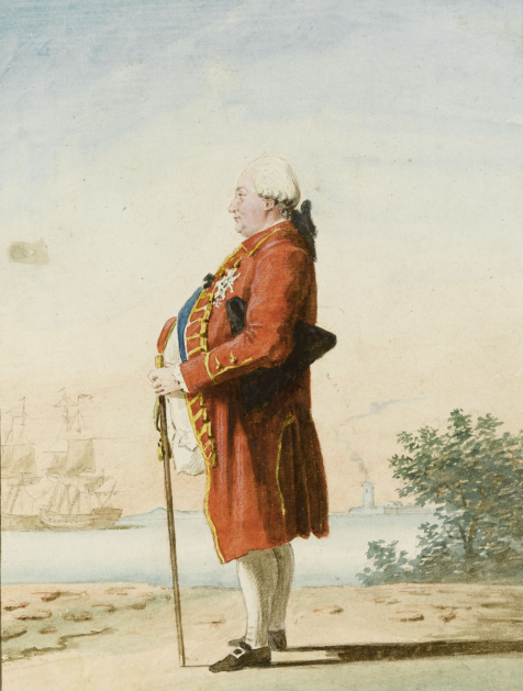 Portrait de Suffren at the end of his life.